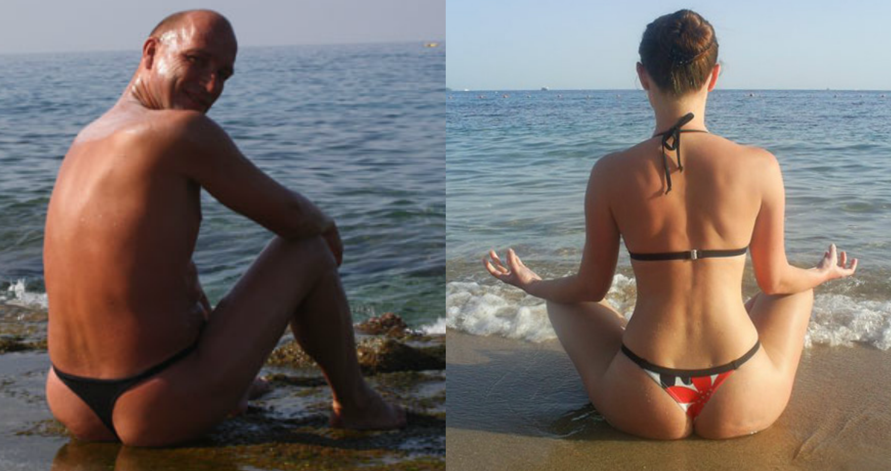 Man calm at next to waves at the beach (left image). Pavlina tries to calm at next to waves, yoga at the beach (right image).